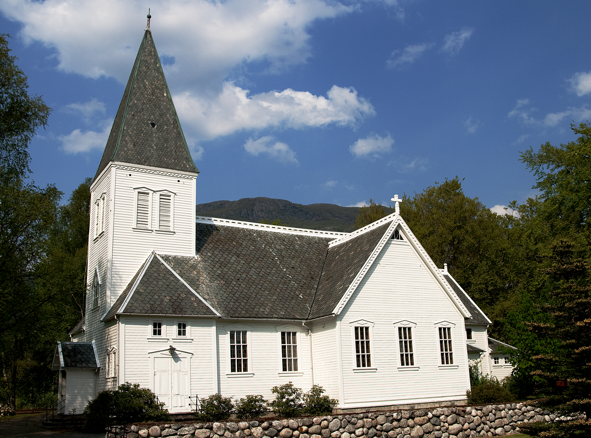 Årdal kyrkje